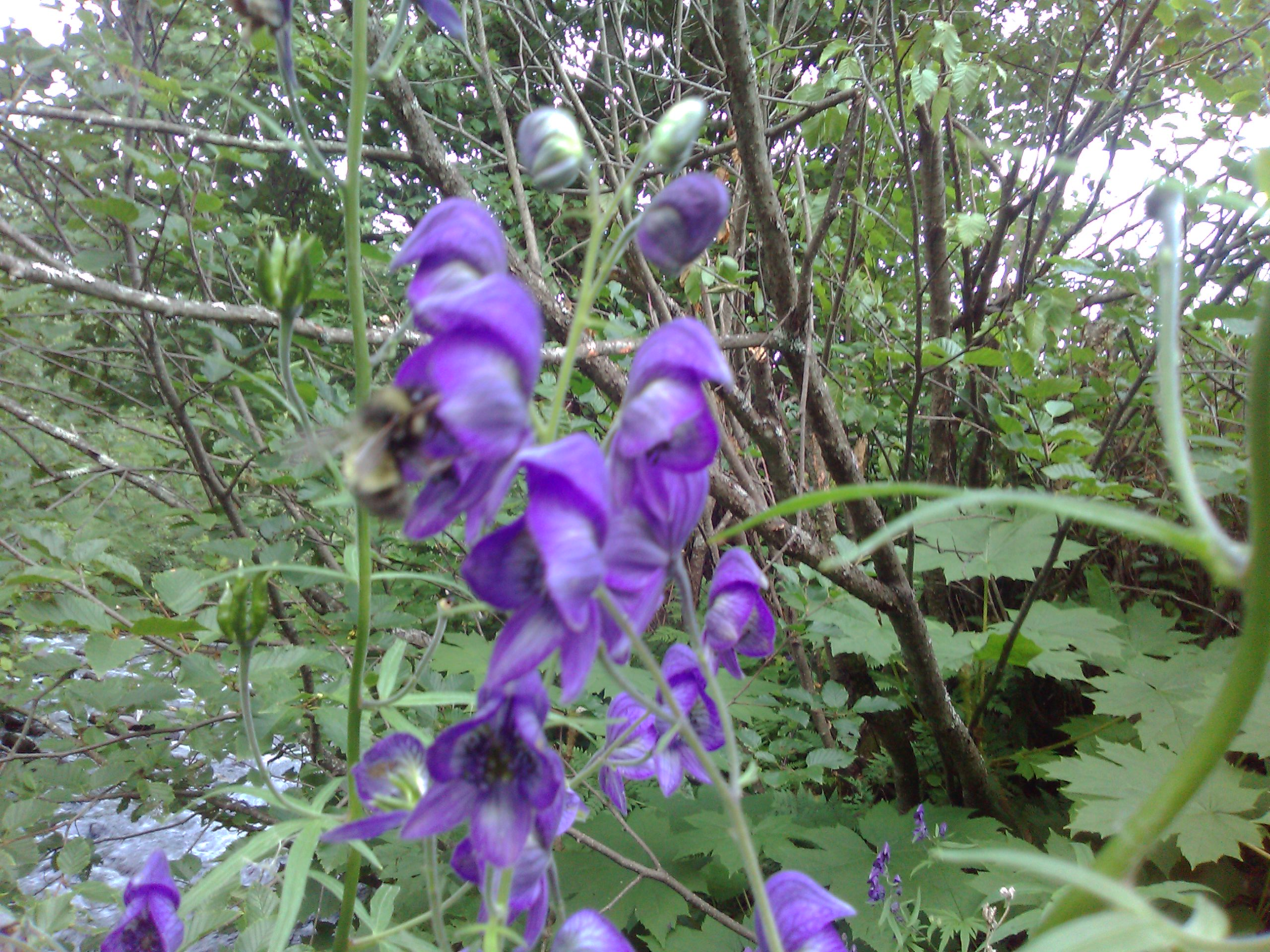 A honey bee collecting nectar from Alaskan monkshood (aconitum delphinifolium, or wolfsbane, or sometimes locally called "parrot's beak"), an extremely poisonous plant. This photo was taken at Stuckagain Heights trailhead, near the Campbell Creek gorge. The flowers close at night and open in the day, being the perfect shape to allow the bee to fit inside, into which it fit's its entire body to reach the nectar. (A little blurry, but best I could get as the bees pop in and out of the flowers very fast.)